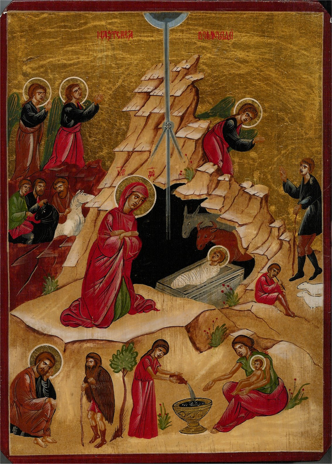 Modern Hand painted Romanian icon of the Nativity